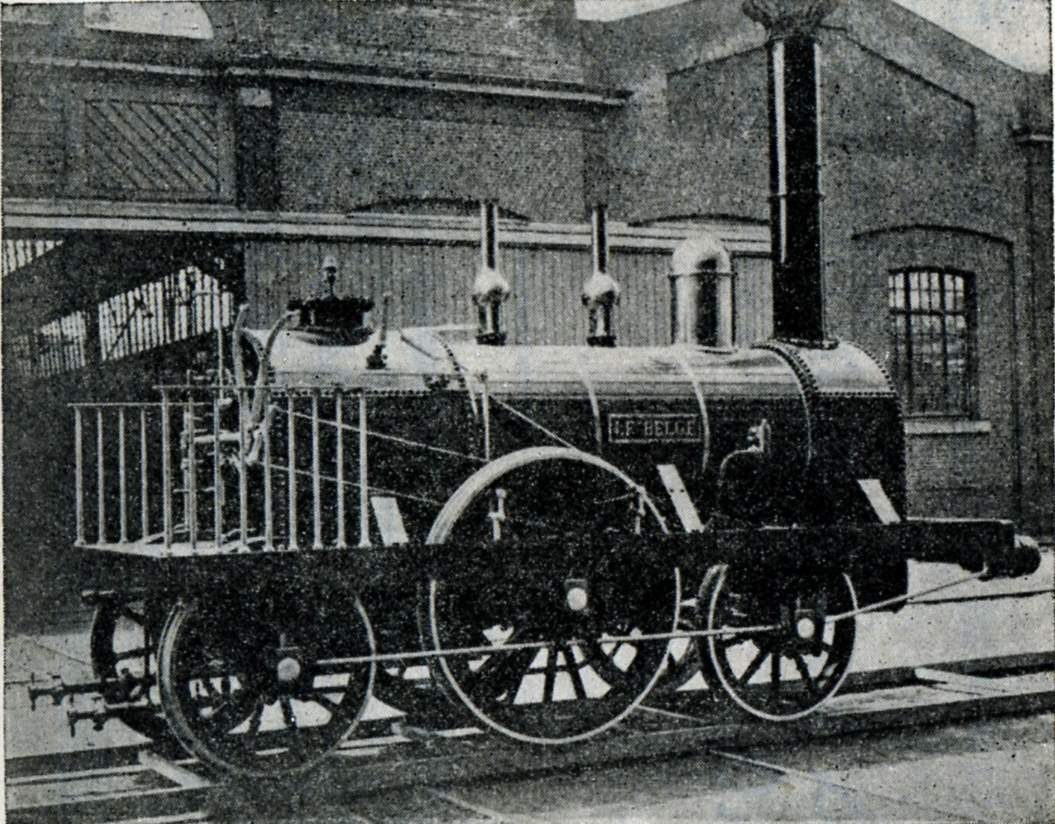 Photo of "Le Belge", the first steam locomotive built in continental Europe (1835) by Cockerill, Belgium